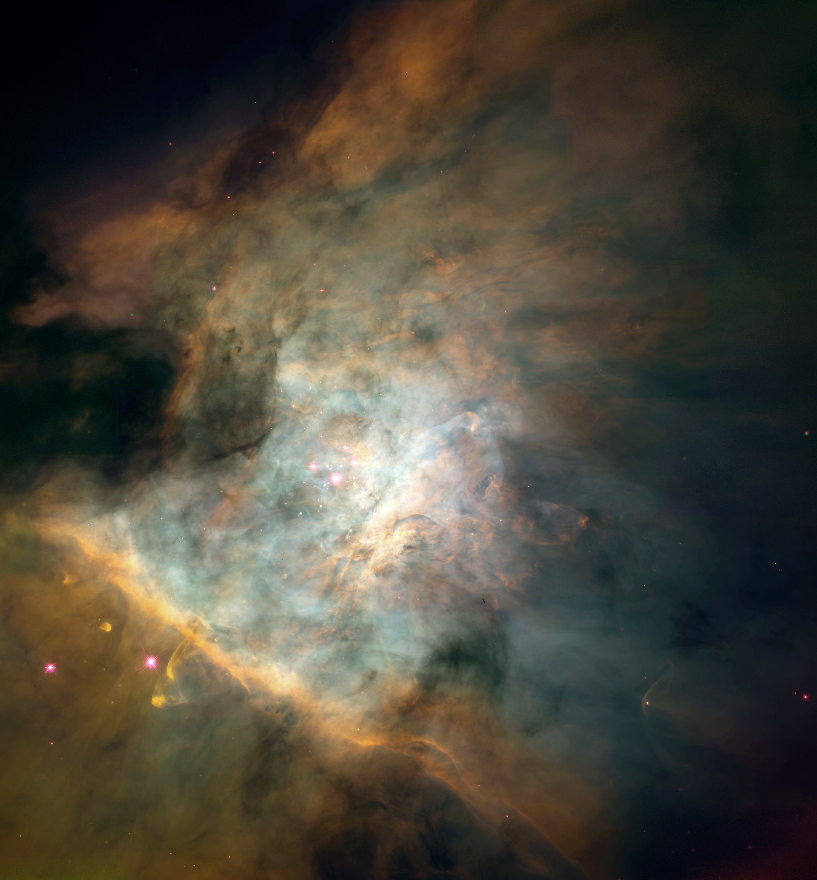 This spectacular color panorama of the center the Orion nebula is one of the largest pictures ever assembled from individual images taken with NASA's Hubble Space Telescope. The picture, seamlessly composited from a mosaic of 15 separate fields, covers an area of sky about five percent the area covered by the full Moon. The seemingly infinite tapestry of rich detail revealed by Hubble shows a churning turbulent star factory set within a maelstrom of flowing, luminescent gas. Though this 2.5 light-years wide view is still a small portion of the entire nebula, it includes almost all of the light from the bright glowing clouds of gas and a star cluster associated with the nebula. The mosaic reveals at least 153 glowing protoplanetary disks (first discovered with the Hubble in 1992, and dubbed "proplyds") that are believed to be embryonic solar systems that will eventually form planets. (Our solar system has long been considered the relic of just such a disk that formed around the newborn Sun). The proplyds that are closest to the Trapezium stars (image center) are shedding some of their gas and dust. The pressure of starlight from the hottest stars forms "tails" which act like wind vanes pointing away from the Trapezium. These tails result from the light from the star pushing the dust and gas away from the outside layers of the proplyds. In addition to the luminescent proplyds, seven disks are silhouetted against the bright background of the nebula. Located 1,500 light-years away, along our spiral arm of the Milky Way, the Orion nebula is located in the middle of the sword region of the constellation Orion the Hunter, which dominates the early winter evening sky at northern latitudes.